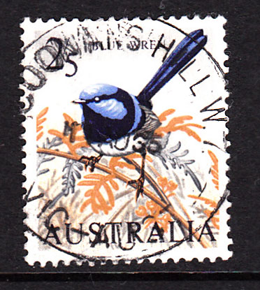 1965 postmark of COONANS HILL W7 Victoria part of Pascoe Vale South, Victoria